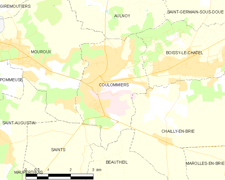 Map of French municipality Coulommiers